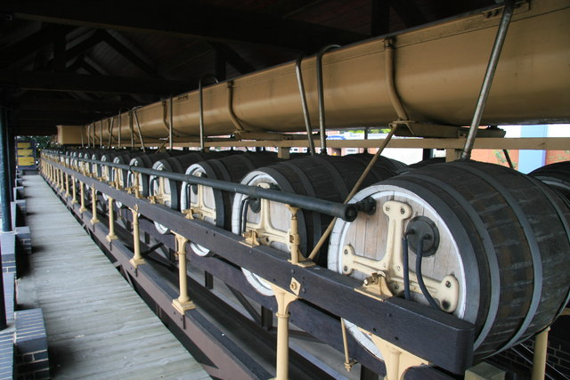 Burton Union fermentation system, Coors Visitor Centre This eponymous system was once widely used in Burton-upon-Trent and is still used by Marstons in their traditional tower brewery. This set is preserved and visible from the public road passing Coors Visitor Centre. Another eponymous geographically named fermentation system is the "Yorkshire square" - one brewery in Tadcaster still uses that system.